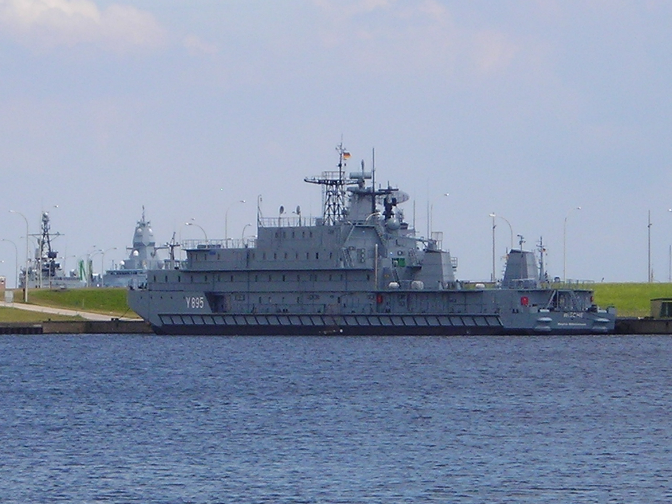 Floating accommodation ship Wische of Naval Base Command Wilhelmshaven. In the background the superstructure of a Klasse 124 frigate (Sachsen-Klasse) can be seen.